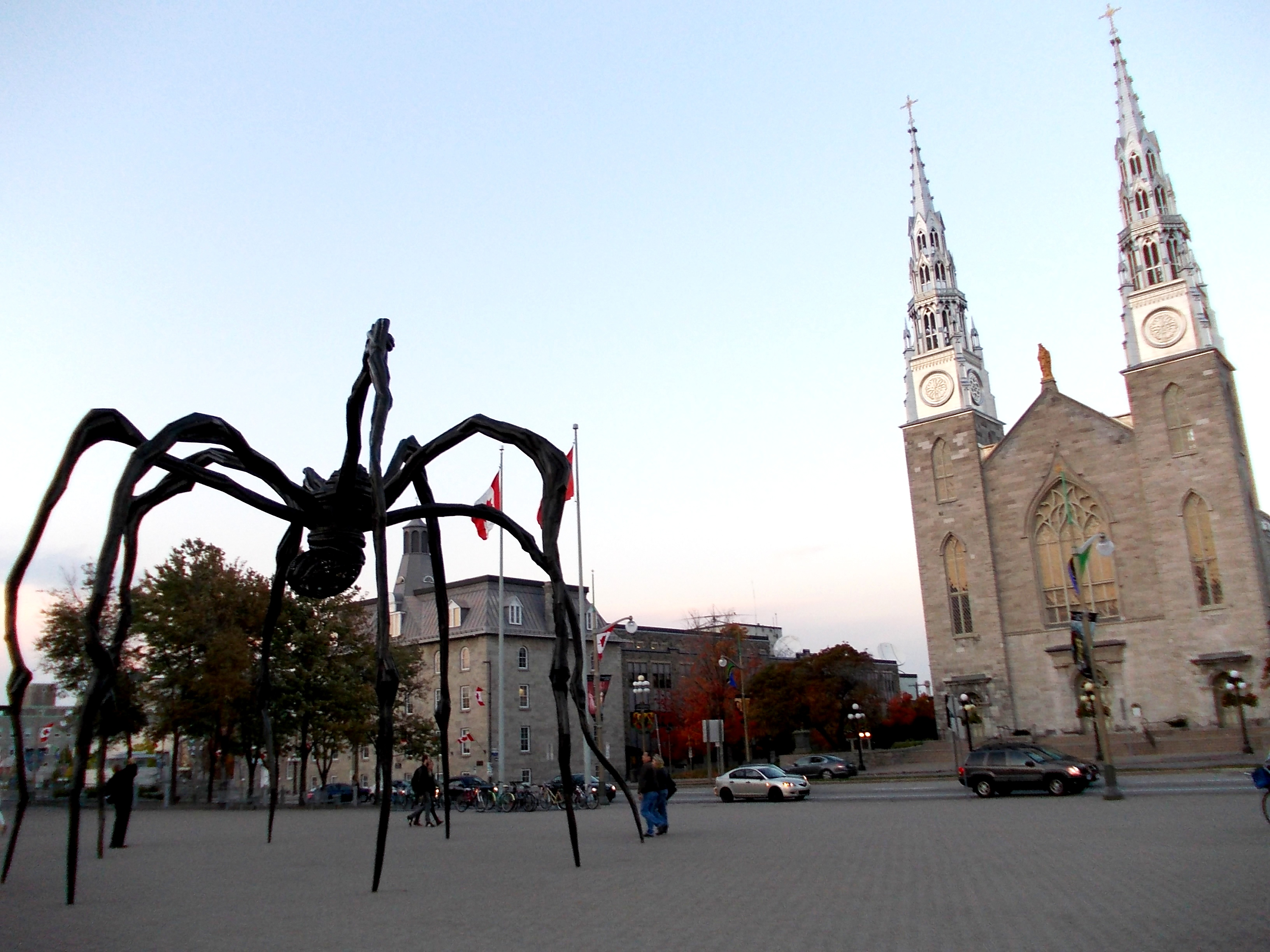 Maman